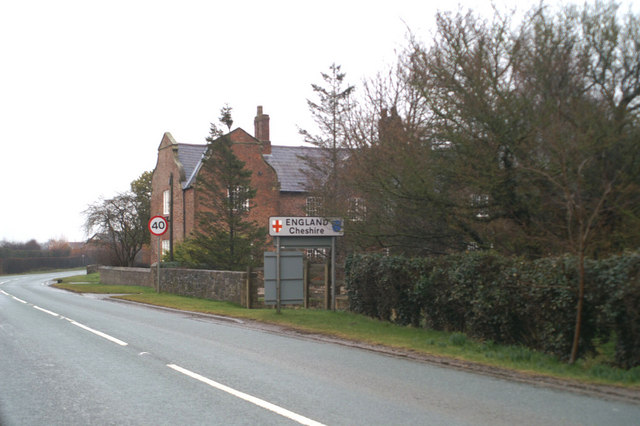 First shall be Last. Bridge Farm, Kinnerton